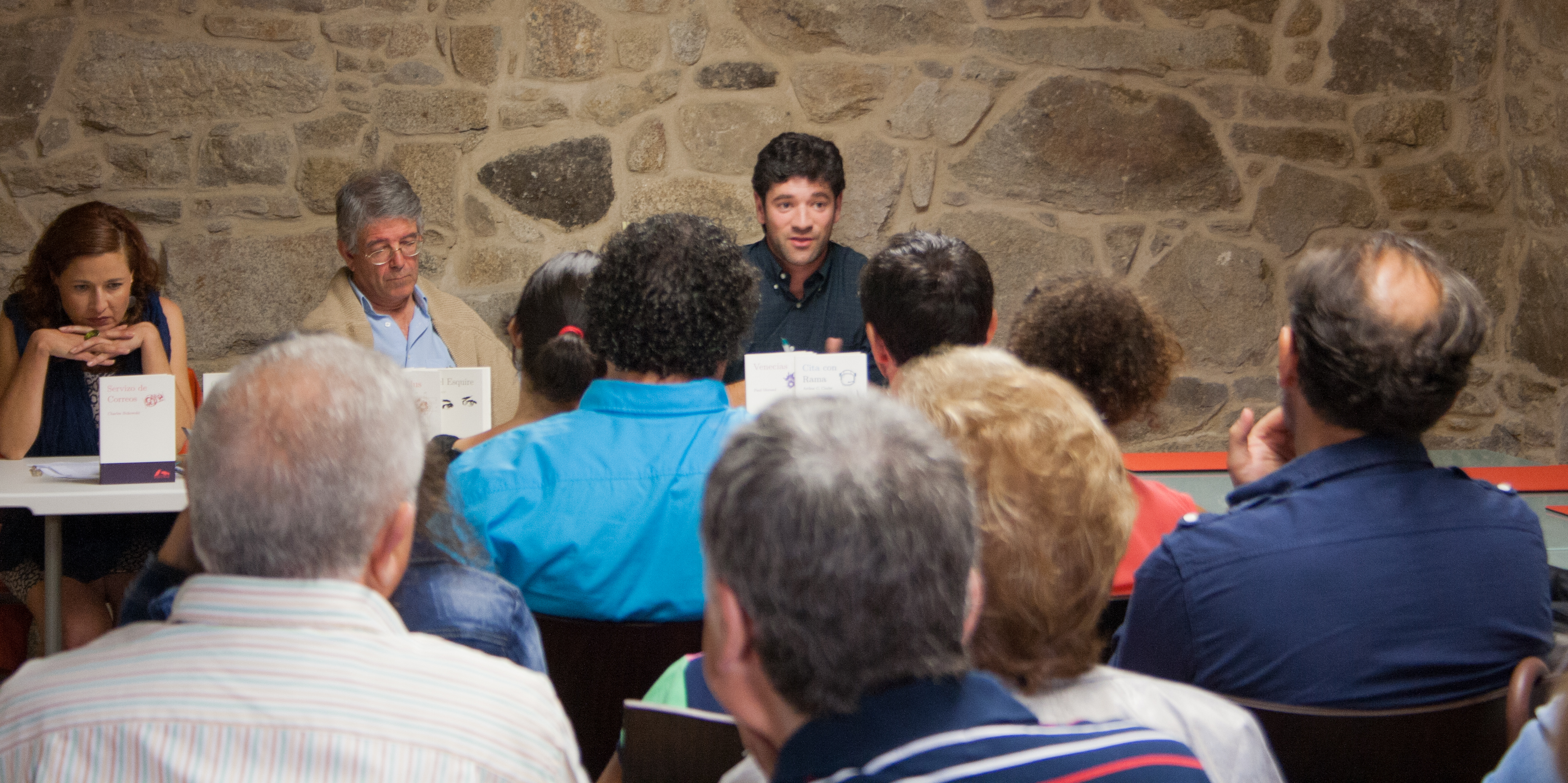 Galician publisher Hugin e Munin, during a presentation of the translation of the book Locus Solus (1914) in Cambados, Galicia, Spain.